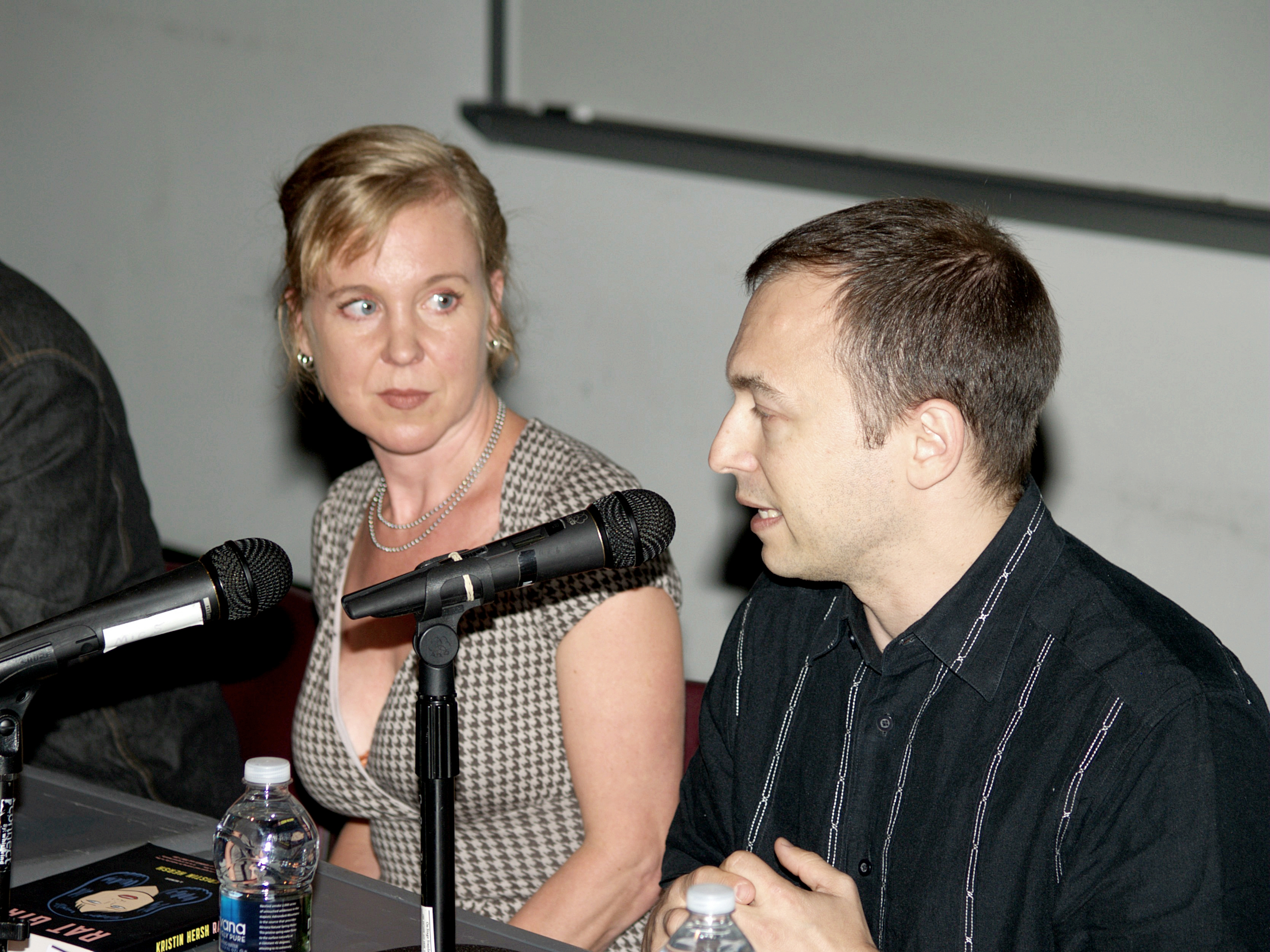 Kristin Hersh at the 2010 Brooklyn Book Festival with Dan Charnas discussing the role of musicians as artists against the role of records companies as businesses.